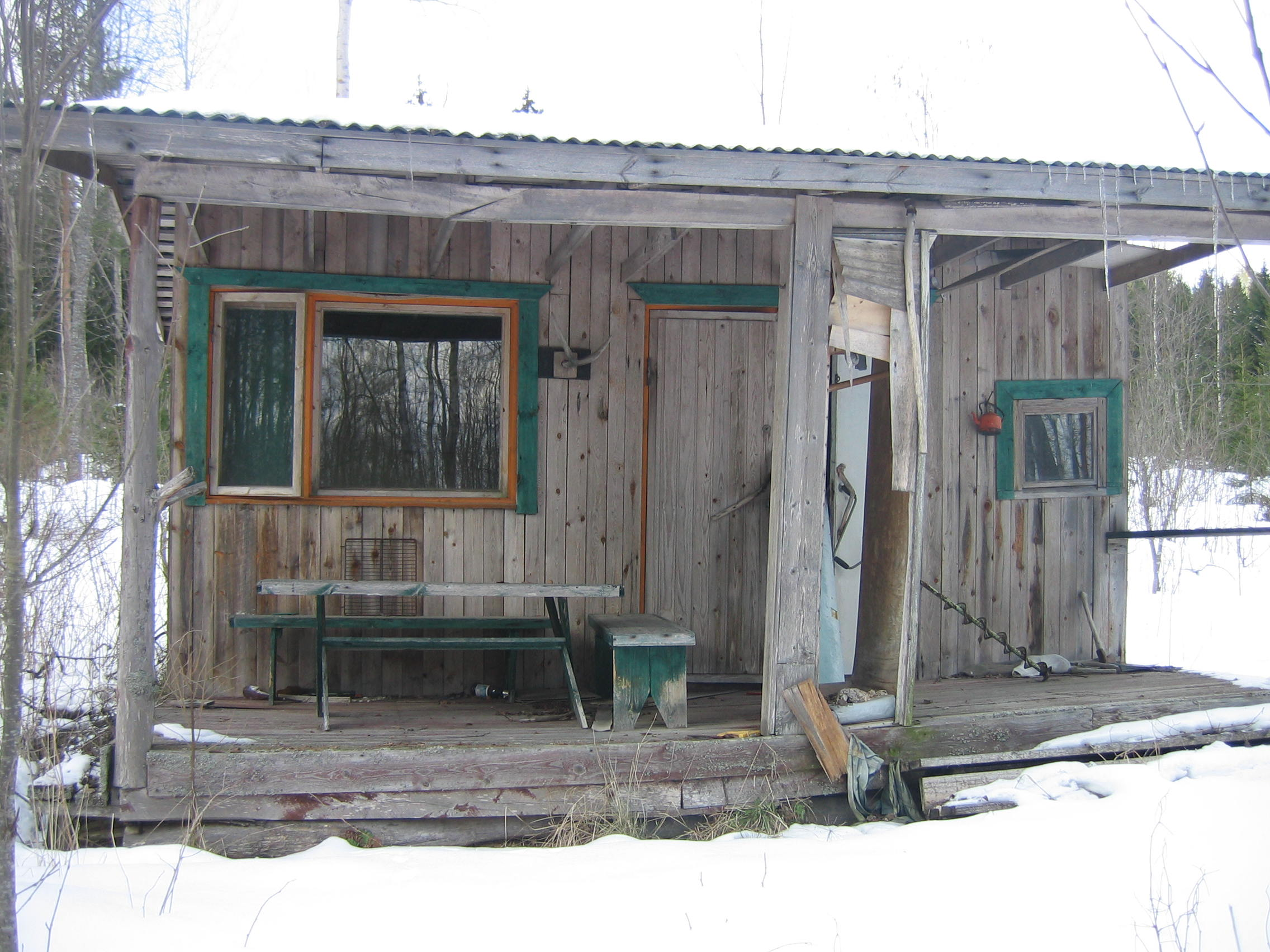 An old hunting and fishing hut in Parikkala, Finland